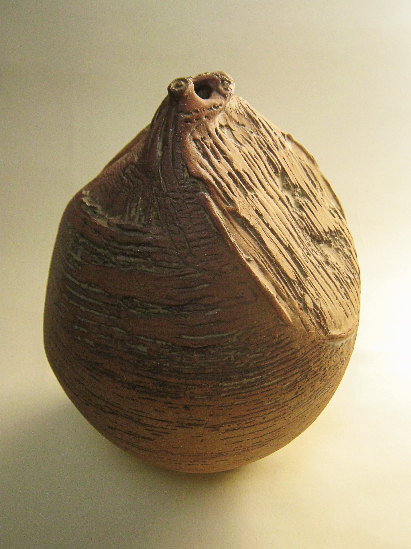 Textured ovoid form in fireclay by Ian Sprague 1970s; photographed in a private collection at Enfield Victoria